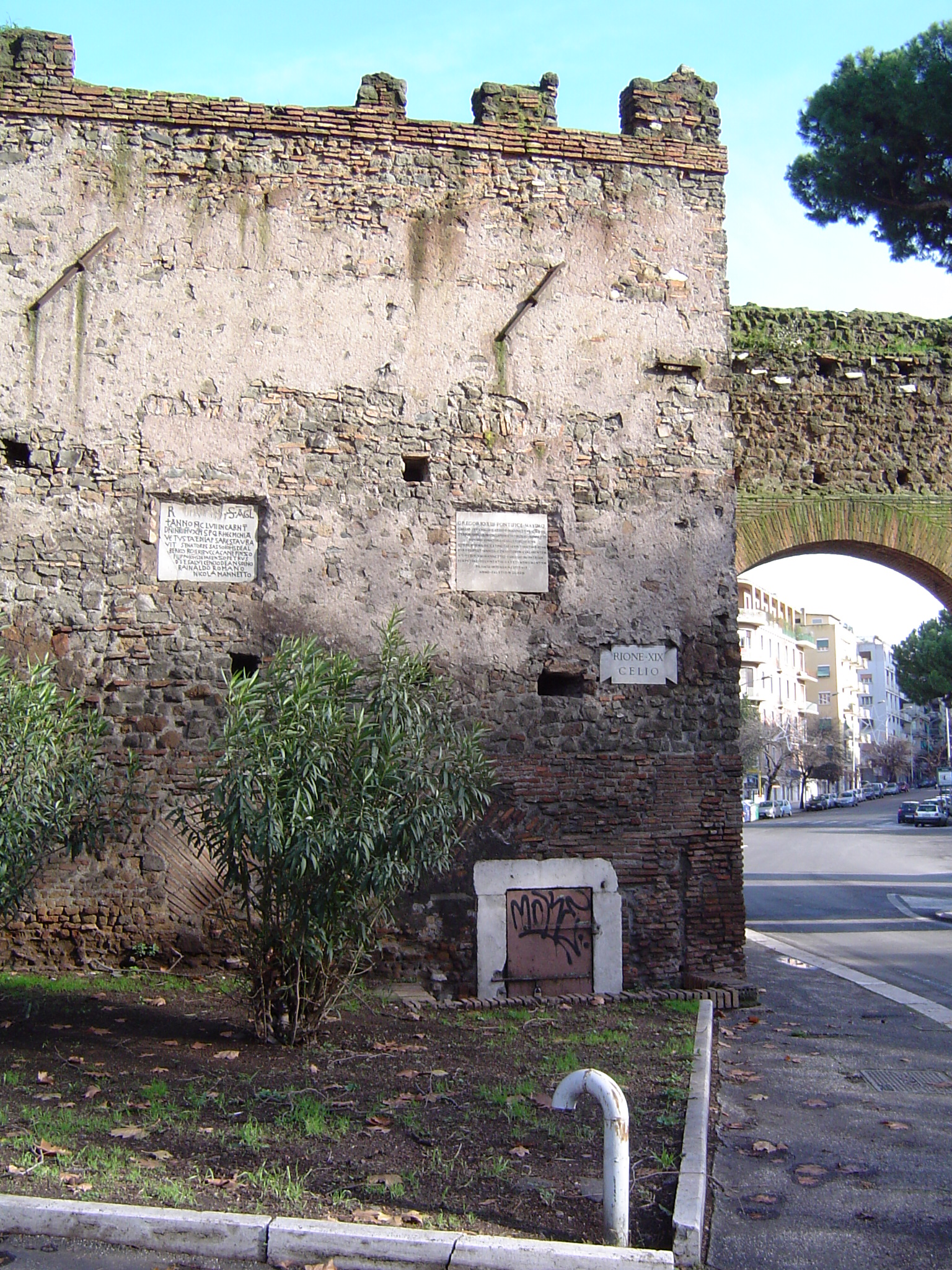 Porta Metronia, Rome, Italy Made by Joris van Rooden, the Netherlands on 03-01-2006